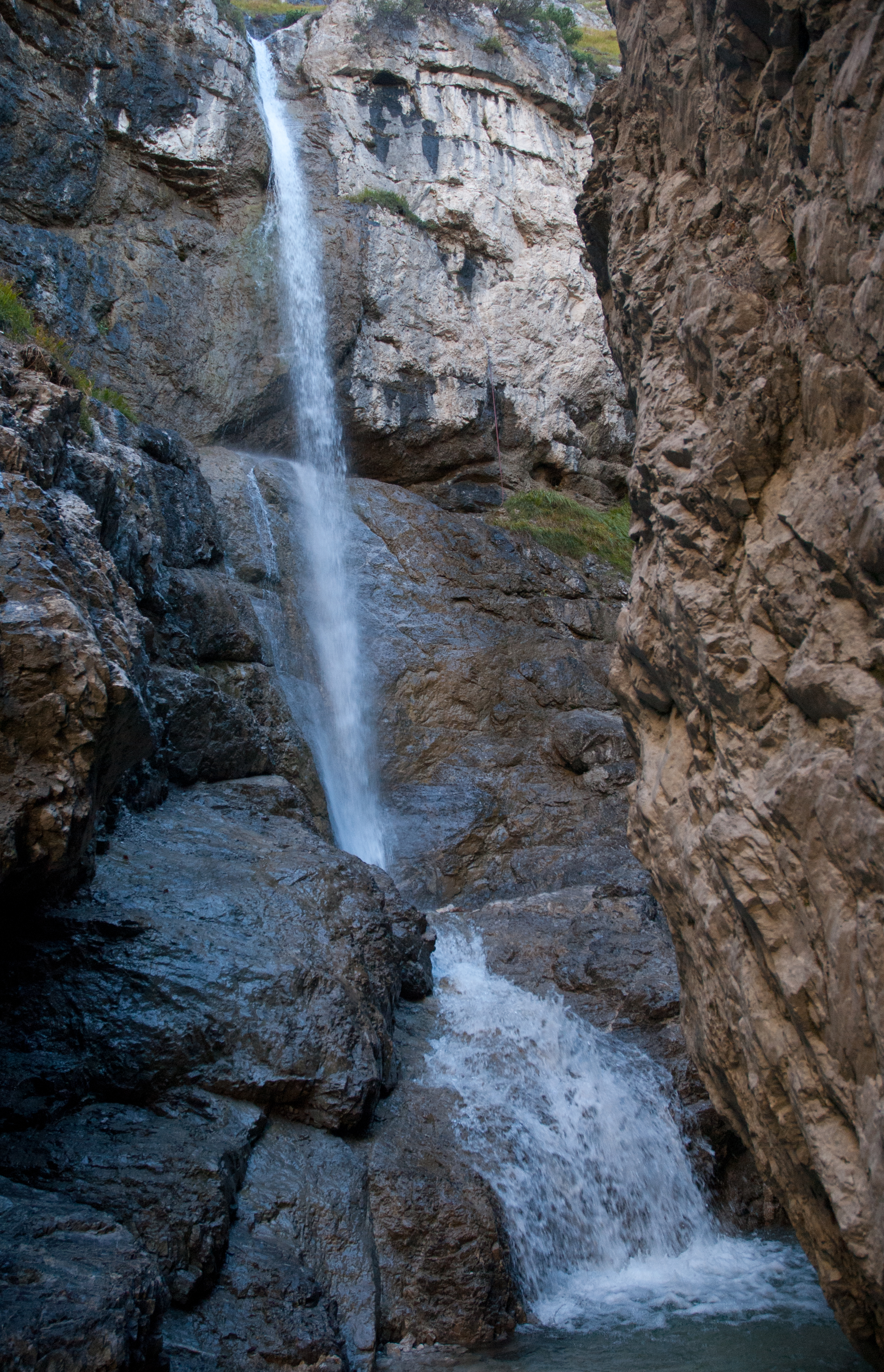 The lowest of the Fallbach-waterfalls near Absam, Tyrol, Austria